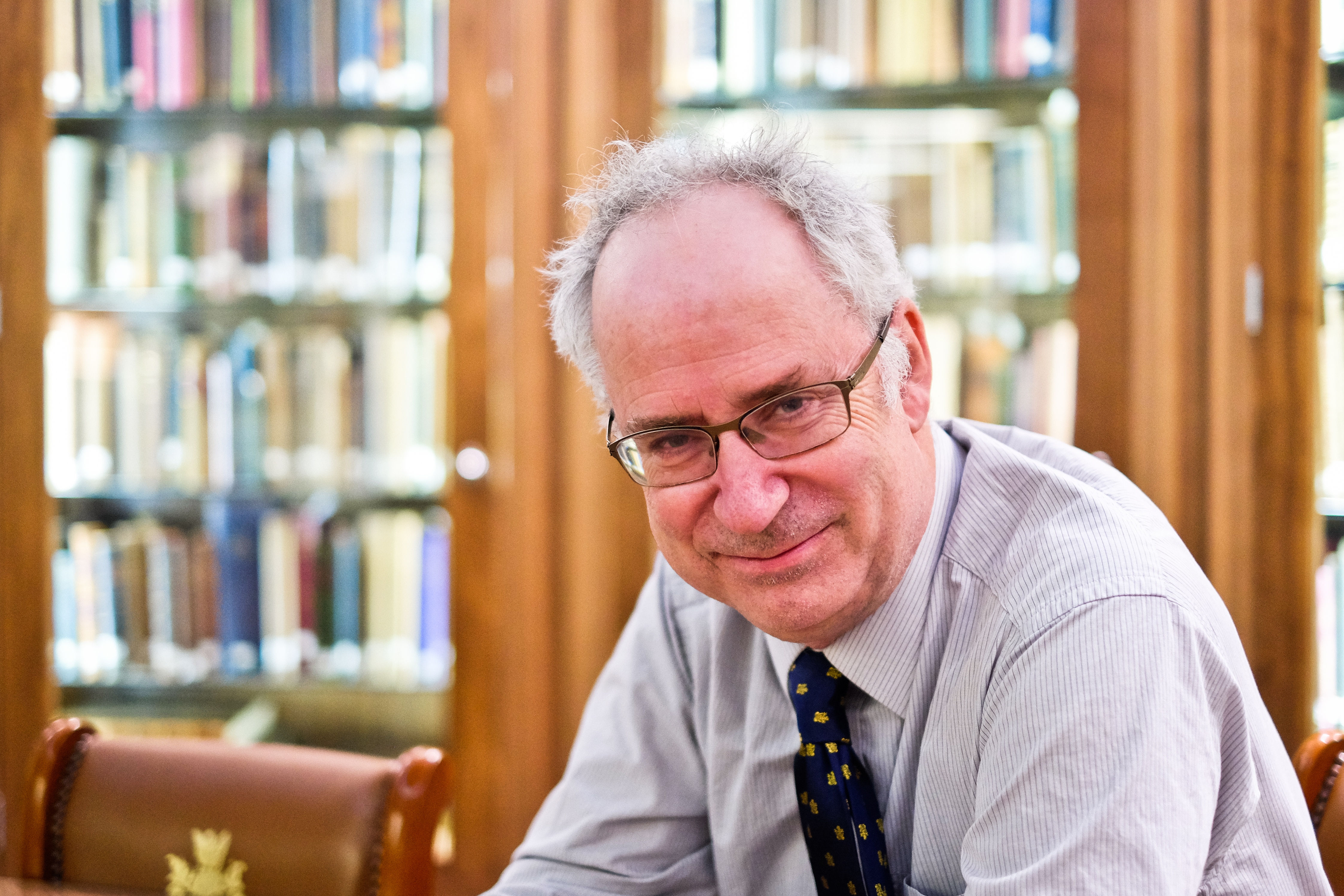 Portrait of Professor Sir Simon Wessely in 2016 as president of the Royal College of Psychiatrists